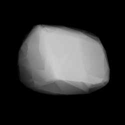 3D convex shape model of 682 Hagar, computed using light curve inversion techniques. J. Hanuš, J. Ďurech, M. Brož, B. D. Warner (June 2011). "A study of asteroid pole-latitude distribution based on an extended set of shape models derived by the lightcurve inversion method". Astronomy and Astrophysics 530: A134. ISSN 0004-6361. arXiv